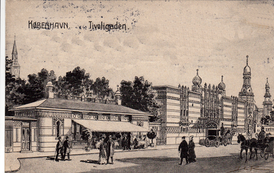 The Nimb Complex on a postcard by J. L. Ridter.